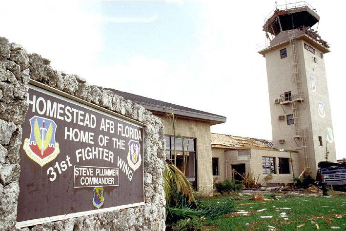 The damaged control tower and base operations building on Homestead AFB, Florida, after Hurricane Andrew smashed into the base on 24 August 1992. (UASF Photo, 31st Fighter Wing History Office collection)